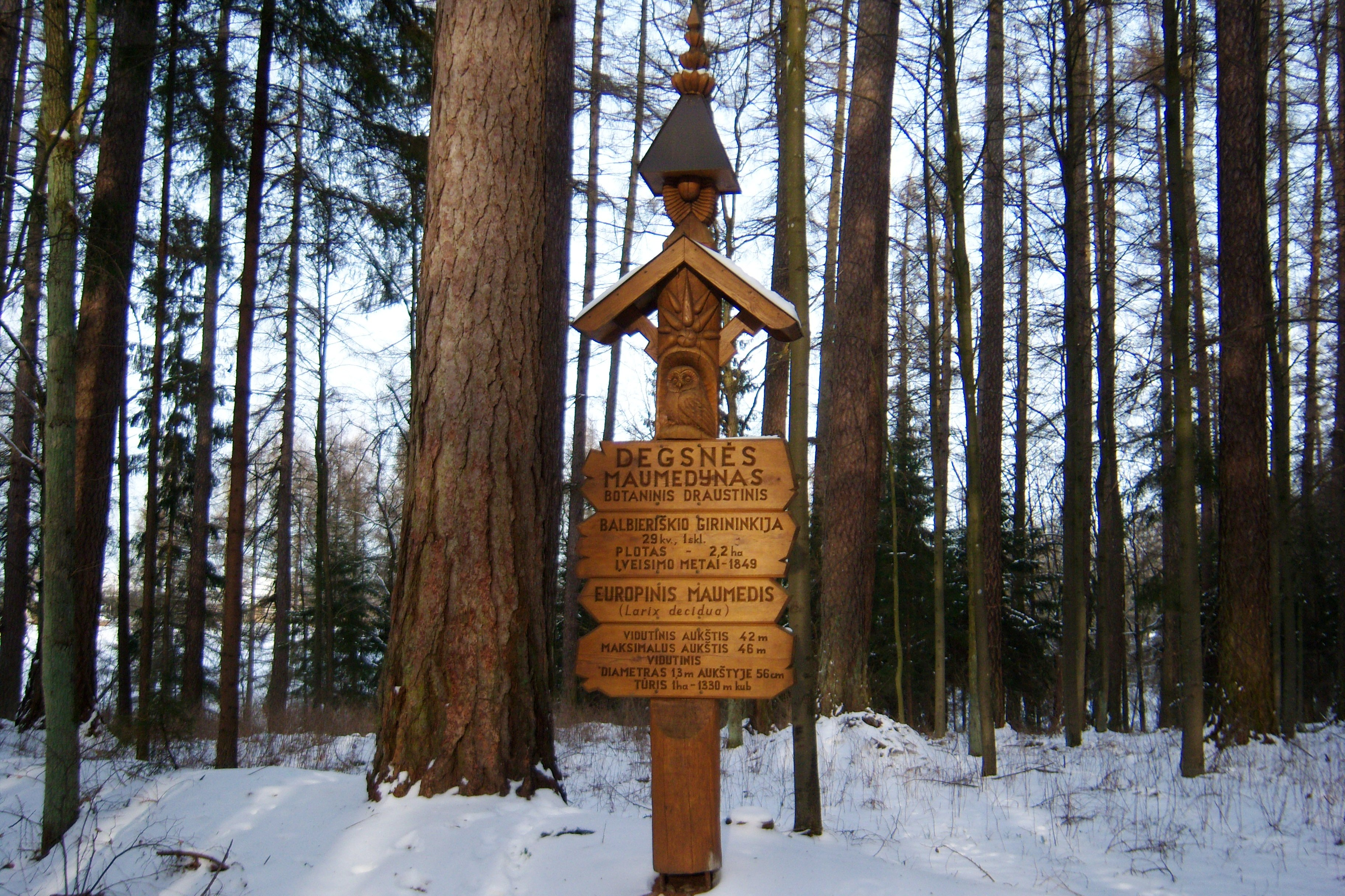 Degsnė larch forest, Prienai District, Lithuania